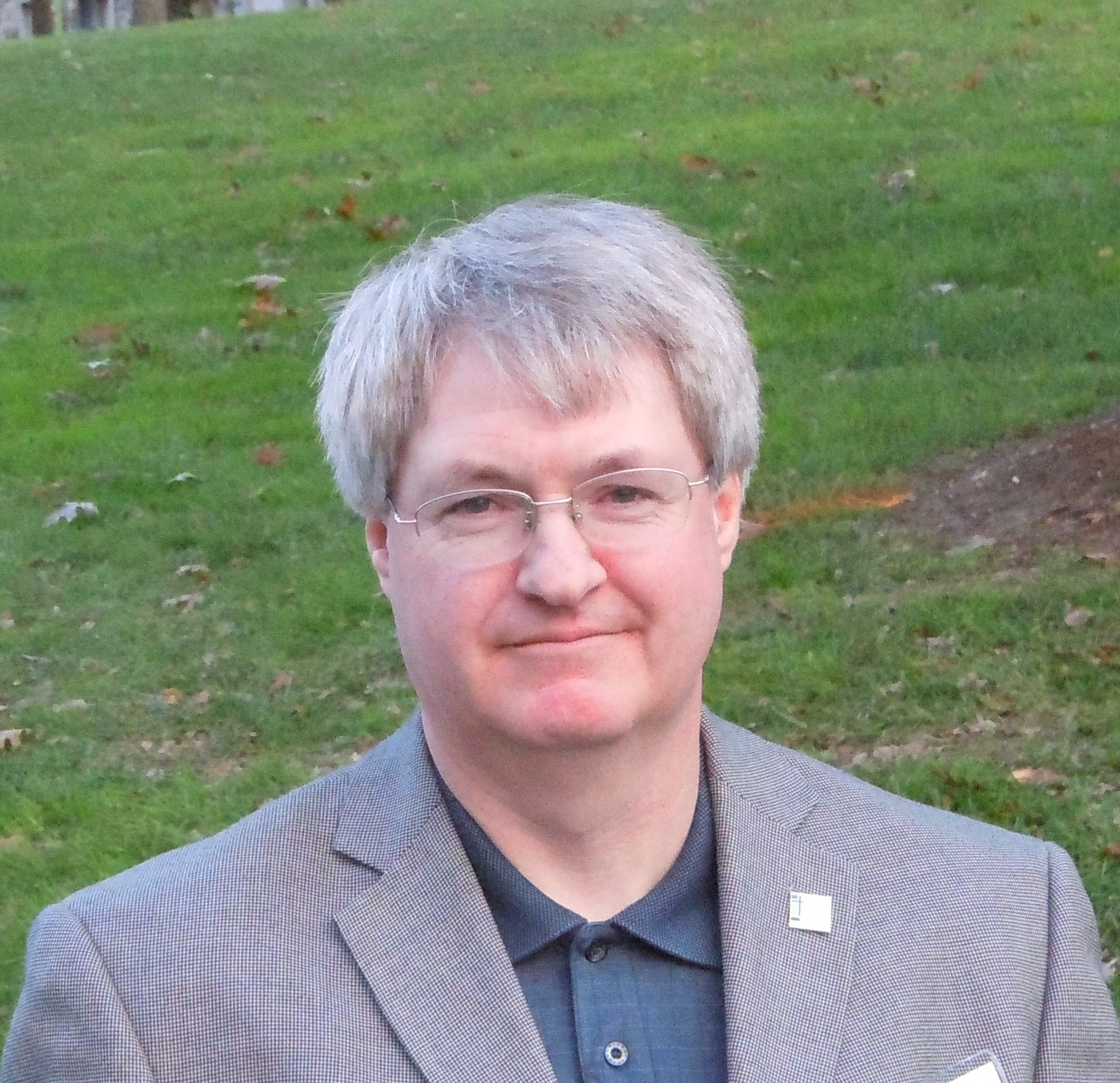 Brendan Sweetman